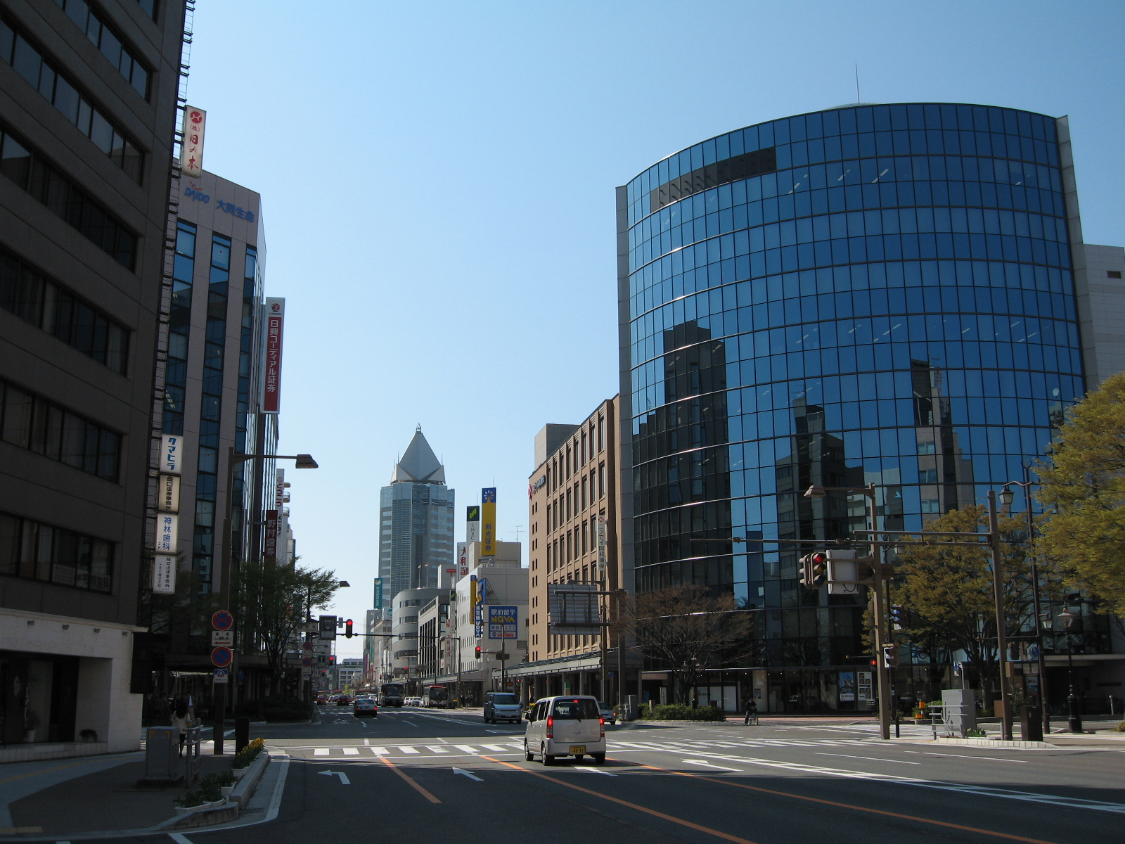 A picture of Furumachi, taken along Masaya-koji.